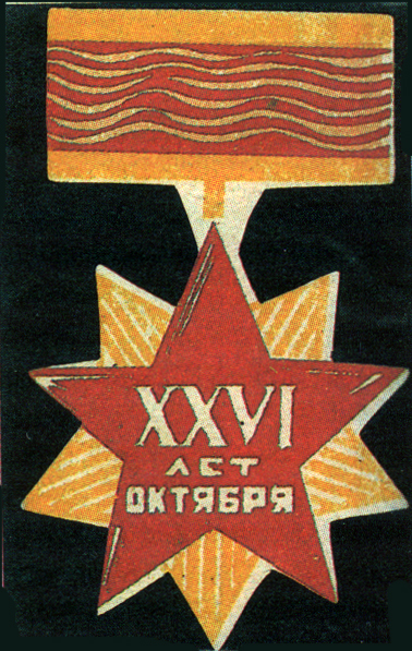 Charitable vignette in favour of the soldiers of Red Army who were on treatment in the Osh military hospital